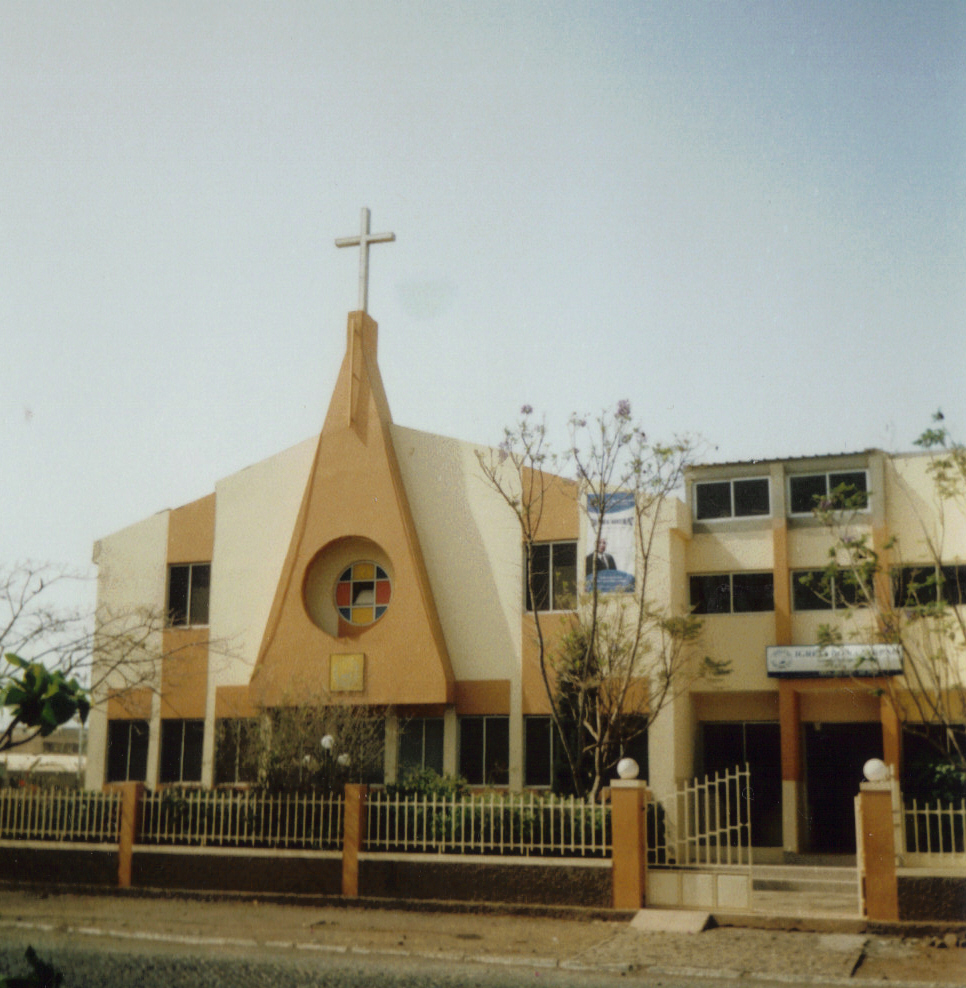 Church of the Nazarene, Achada de Santo António, Praia, Cape Verde.